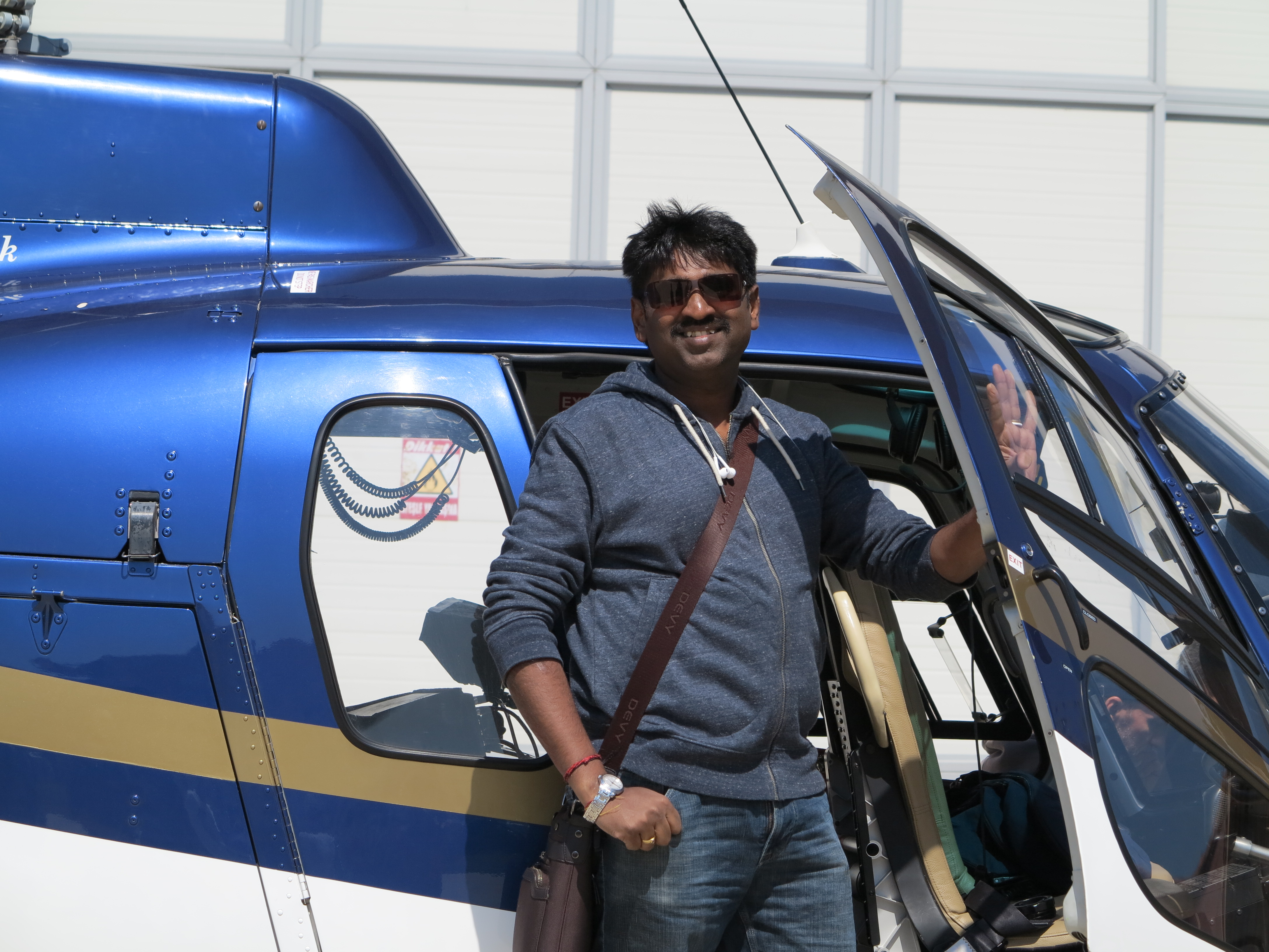 JP on the sets of Baby Movie